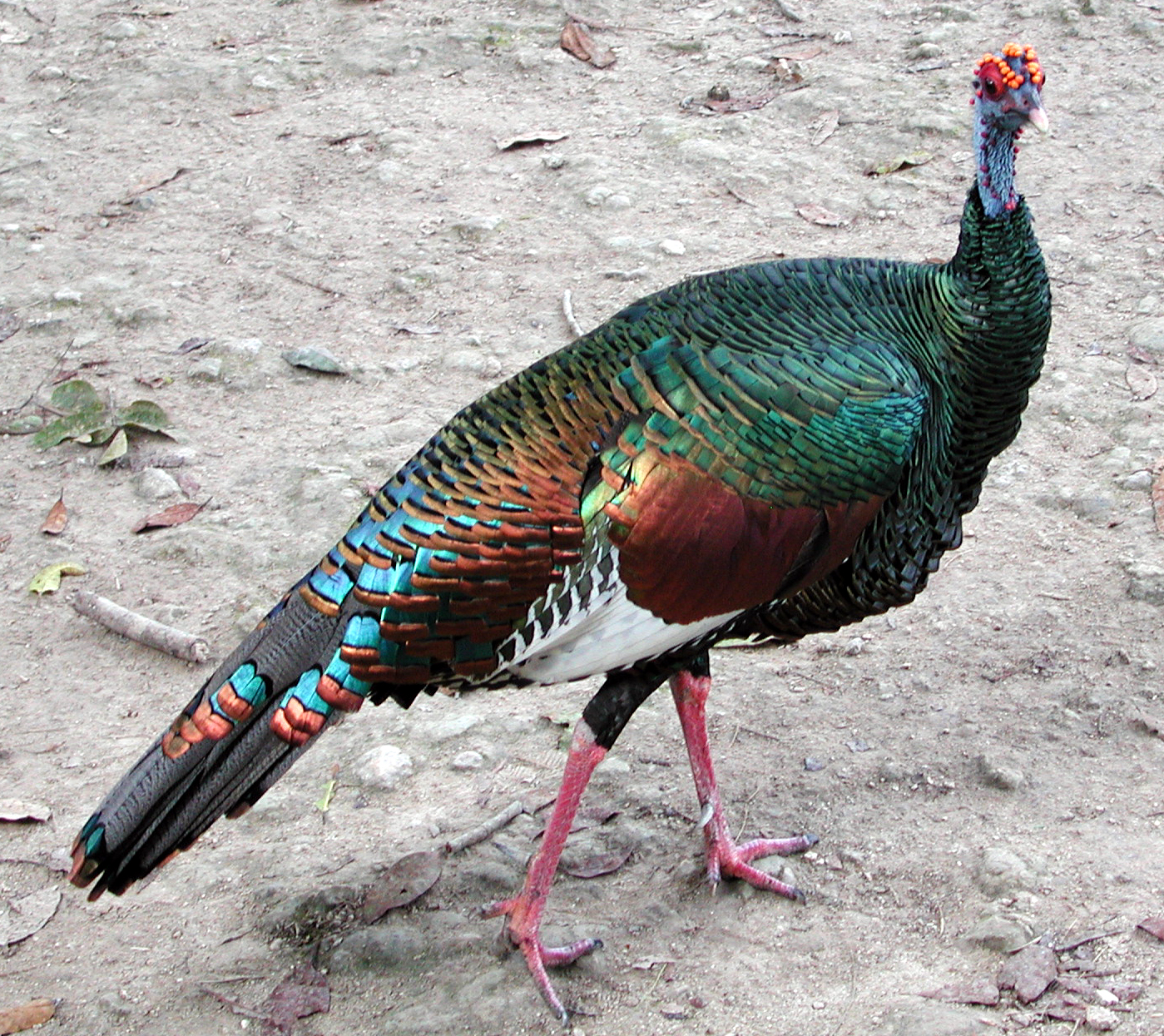 Ocellated Turkey (Meleagris ocellata)